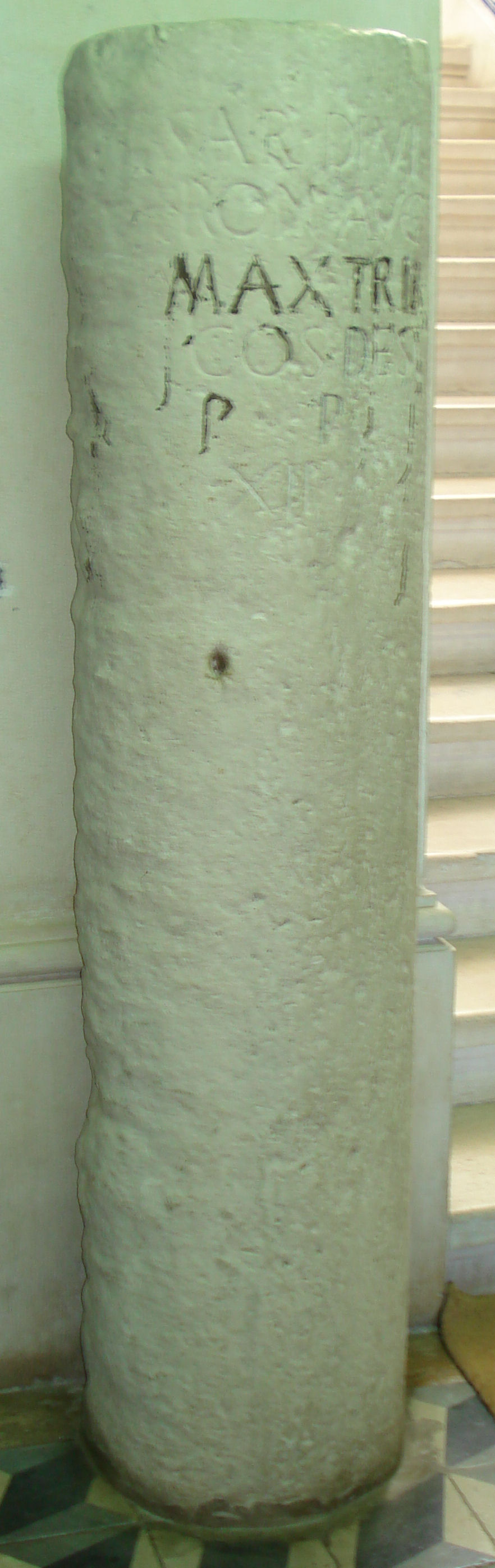 Roman mark in exposition in Mealhada's town hall